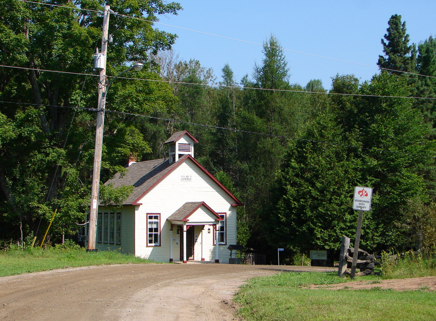 Historic school house along the Hastings Colonization Road in Ormsby (Limerick Township), Ontario, Canada